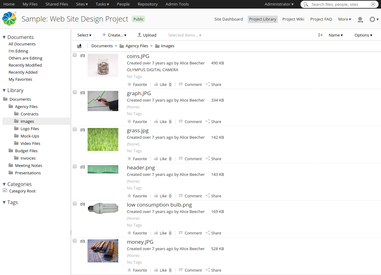 Project library Screenshot of open source software (LGPLv3)